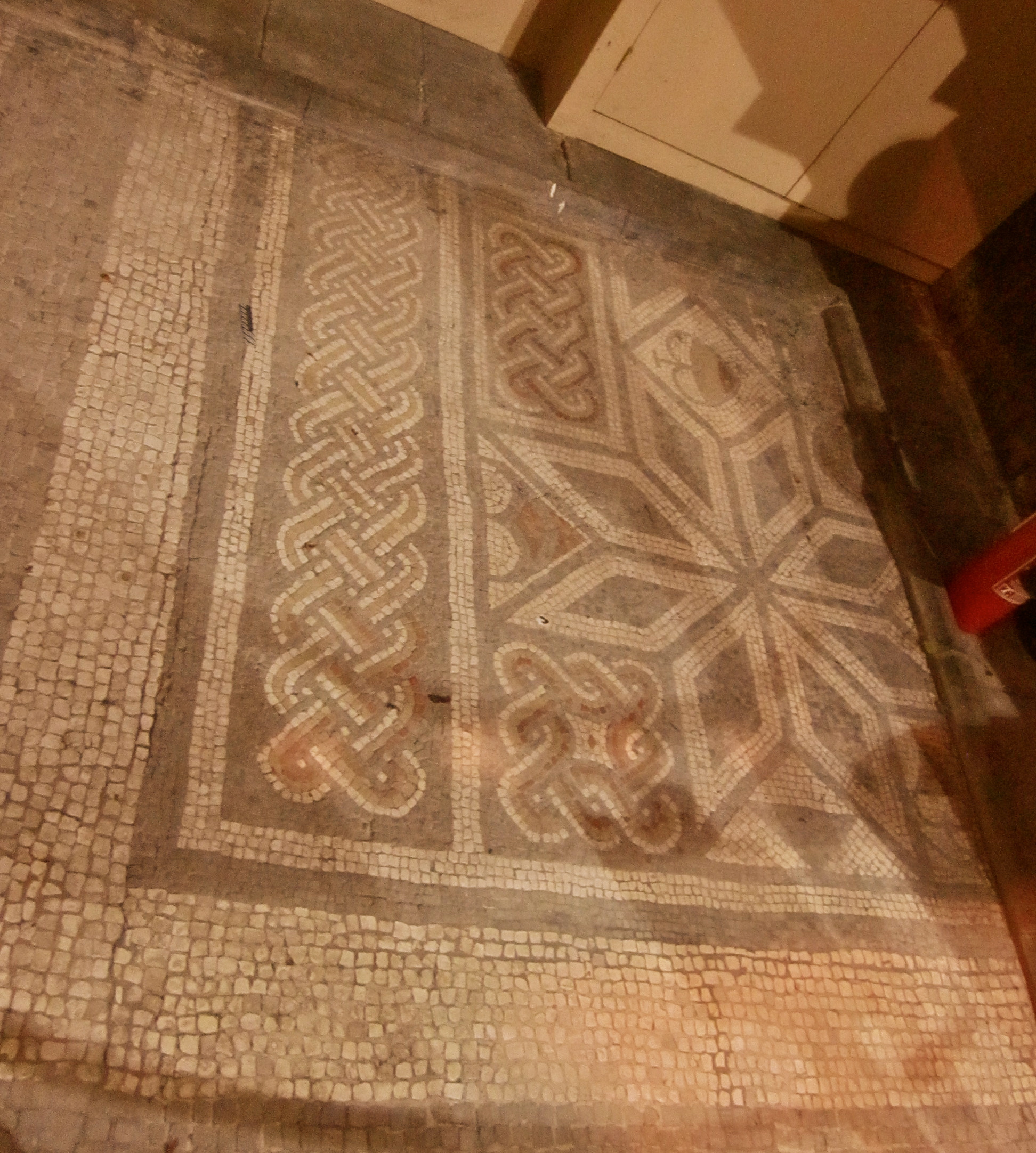 Roman Mosaic found in Cloister of Lincoln Cathedral in 1793